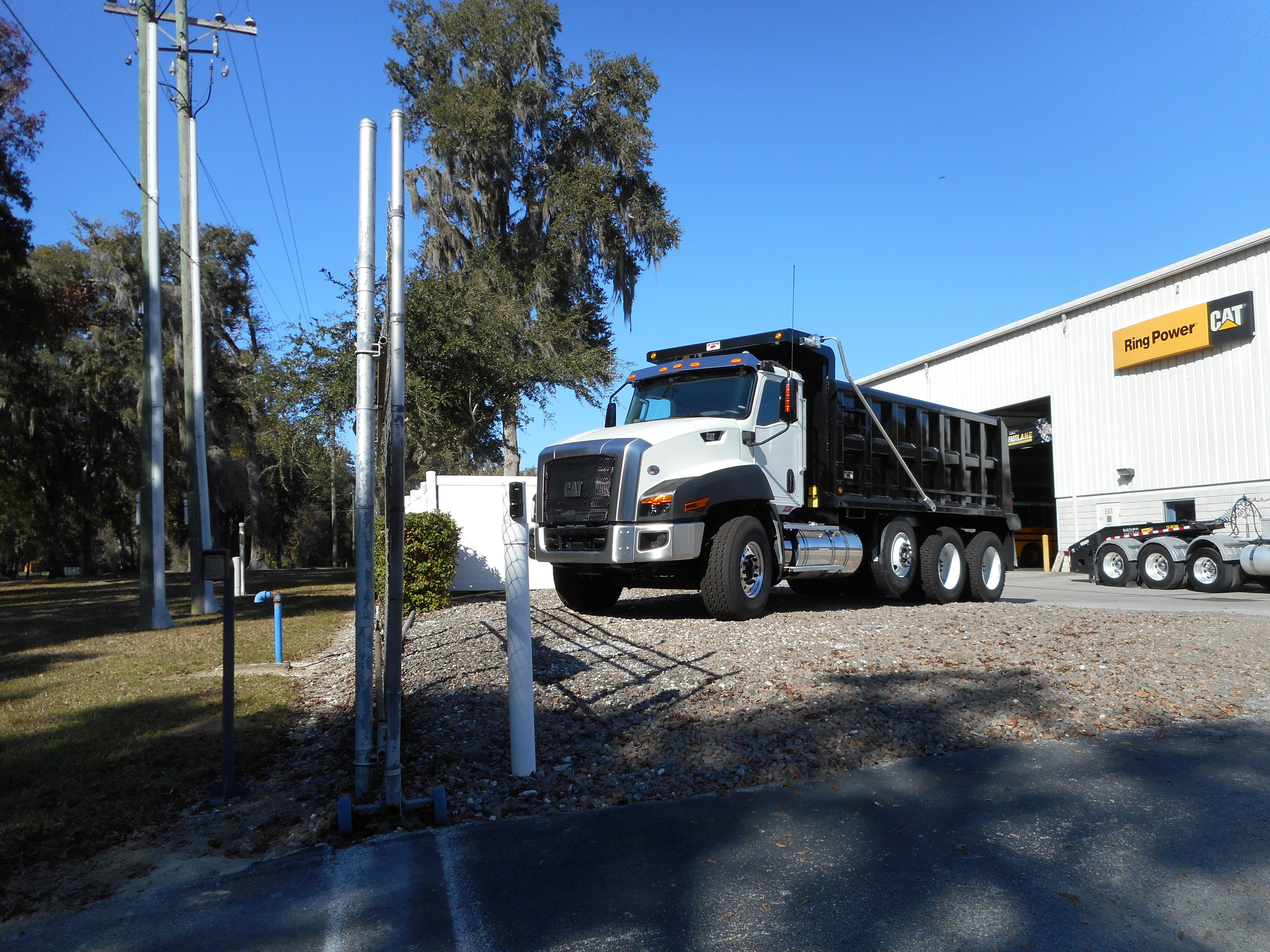 A Caterpillar Cat CT660 dump truck at a dealership on US 98 in Stafford, Florida, northwest of Brooksville, Florida. I have been struggling to get shots of one of these trucks (dump trucks or not) ever since I started seeing them randomly on the road, and was convince briefly barging in to the parking lot of the dealership was my only chance.